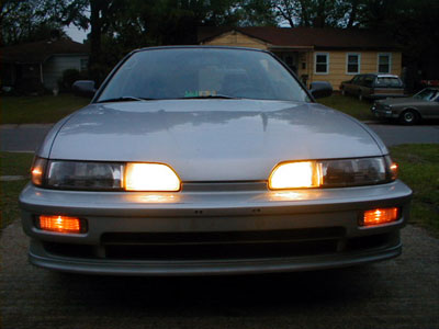 A 1991 Acura Integra with parking lamps activated (they emit both amber and white light), as well as the sidemarker lights.